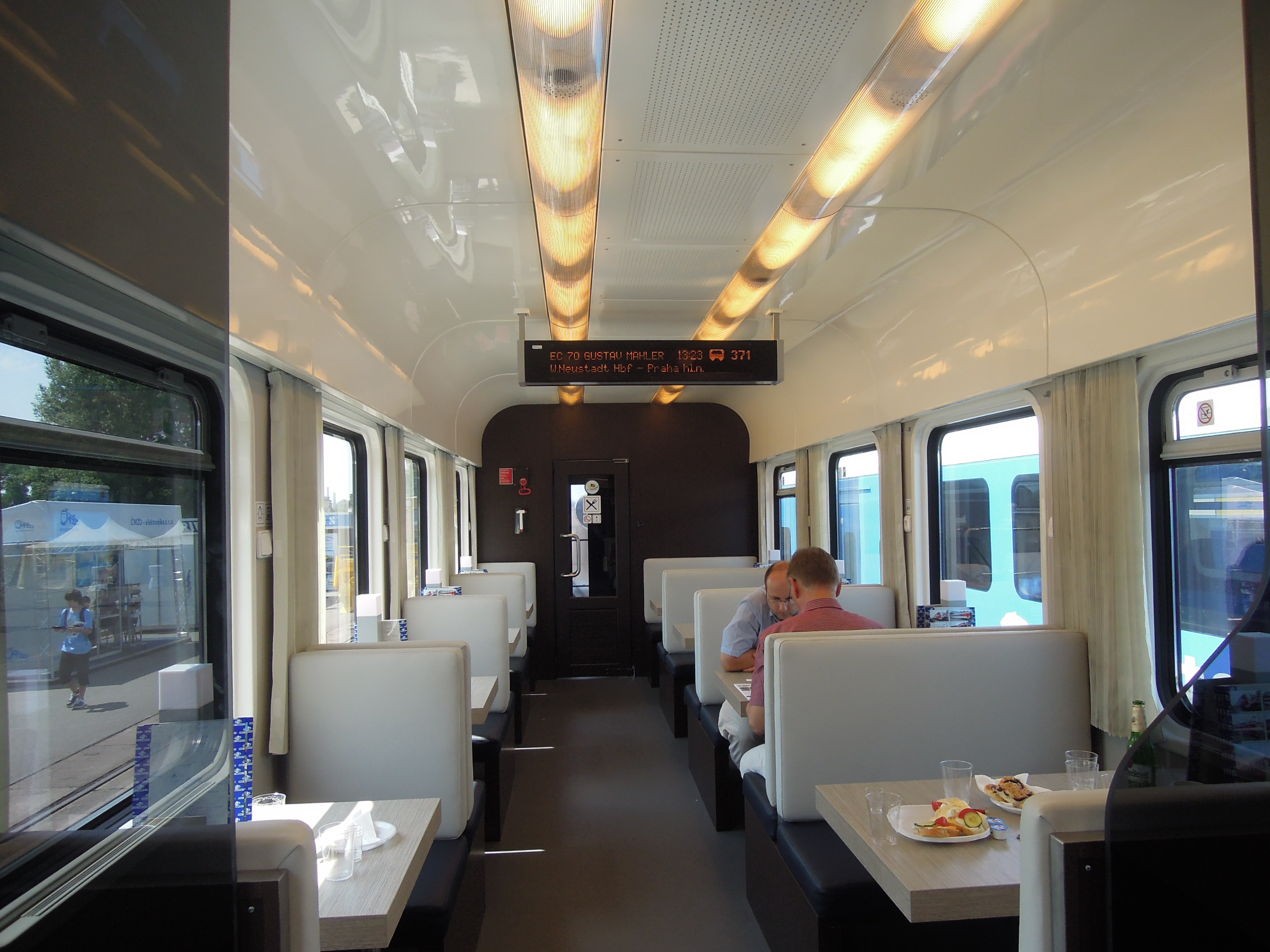 Dining car class WRmee816 of České dráhy at the Czech Raildays 2013 trade fair in Ostrava, Czech Republic